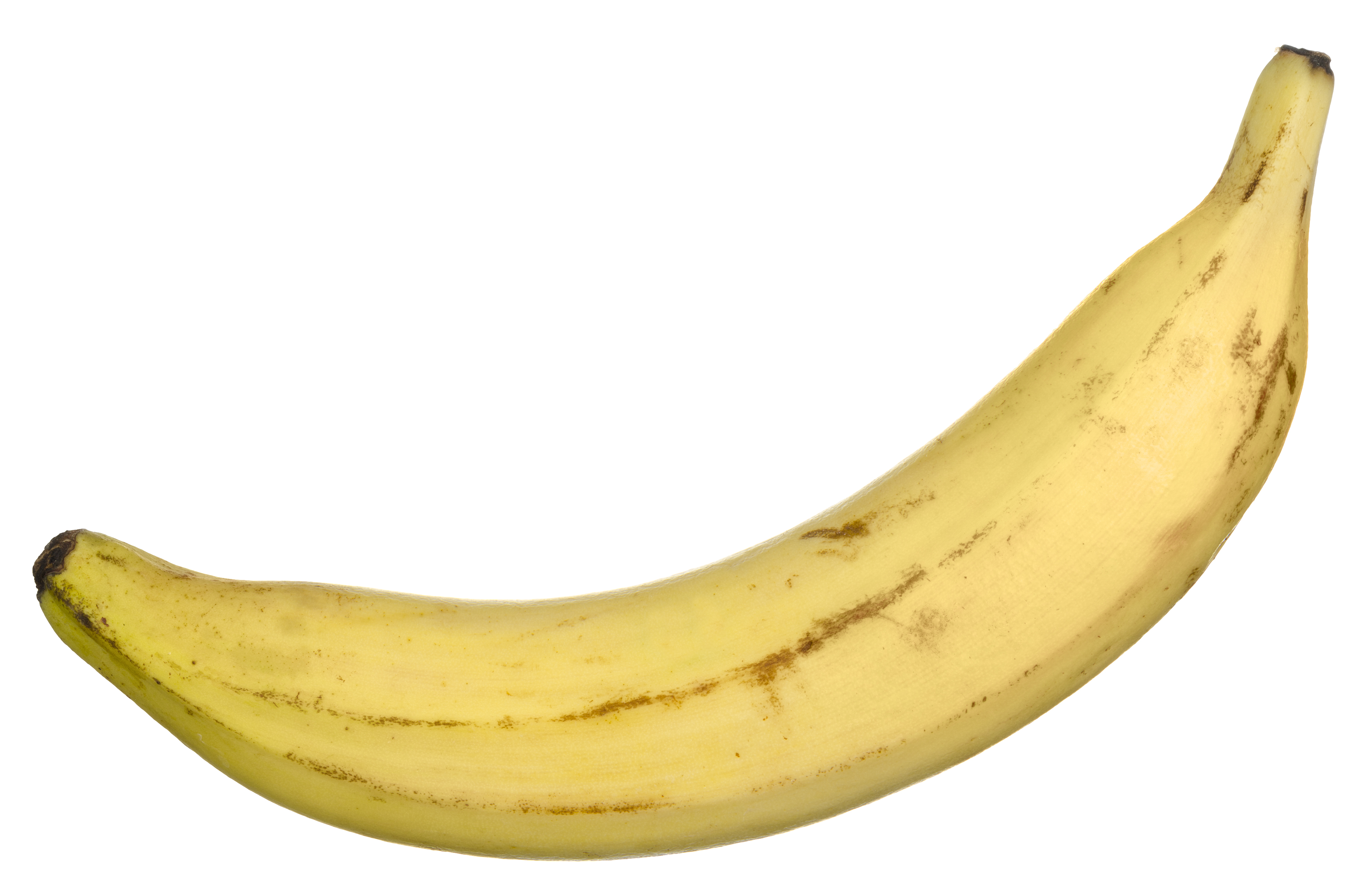 A yellow plantain, bought from an American grocery store.